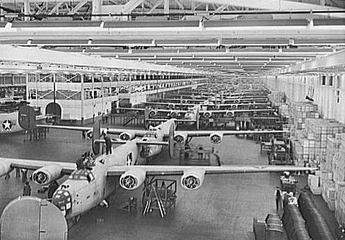 B-24 Liberators on the production line at Willow Run Airport, Michigan, 1943